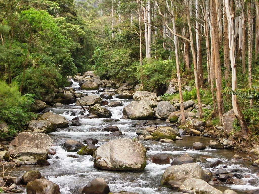 Boquete, Chiriqui